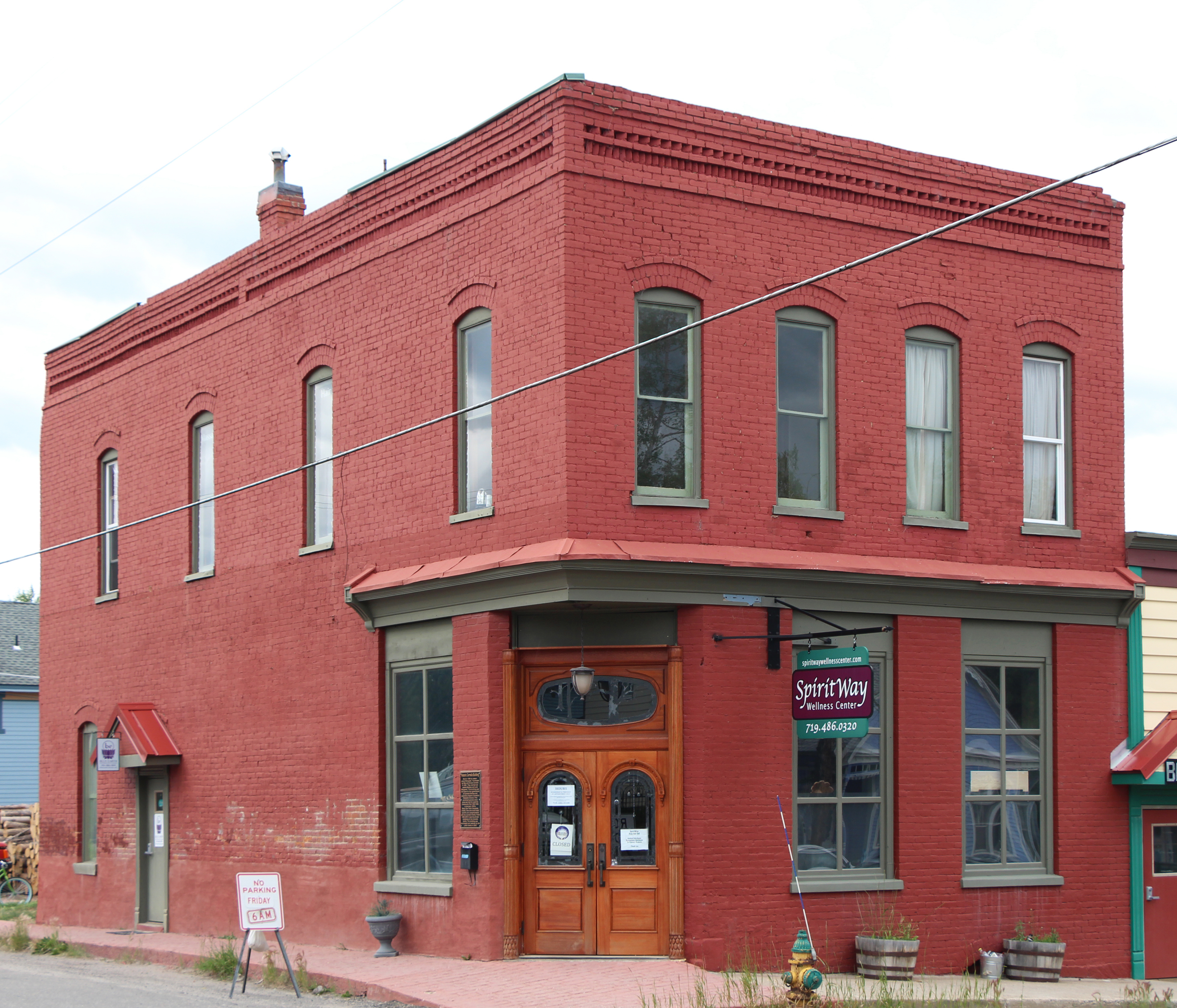 Cornella Building, S.W. corner of Pine and 6th St., Leadville, CO